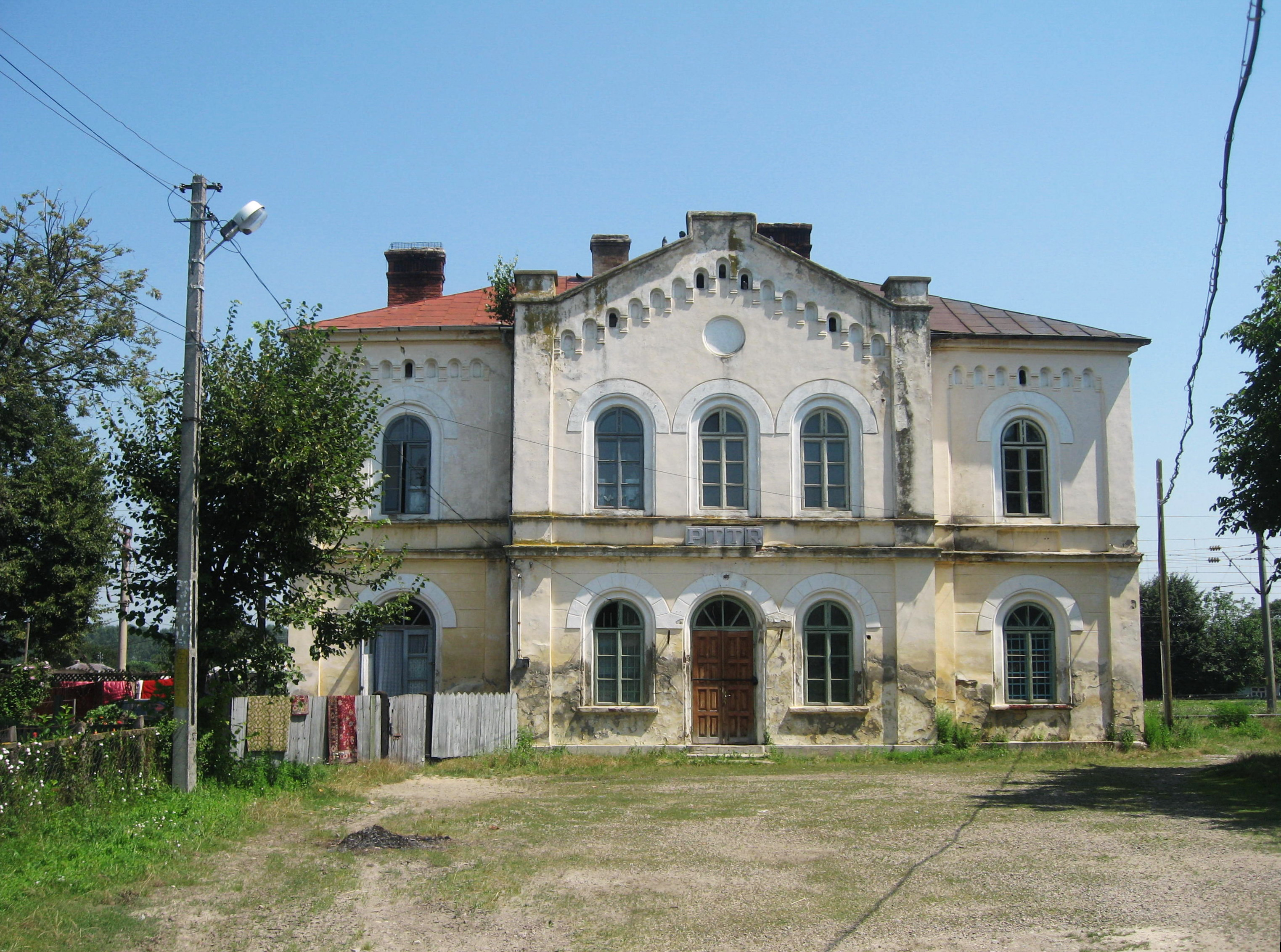 Old railway station of Liteni, Romania